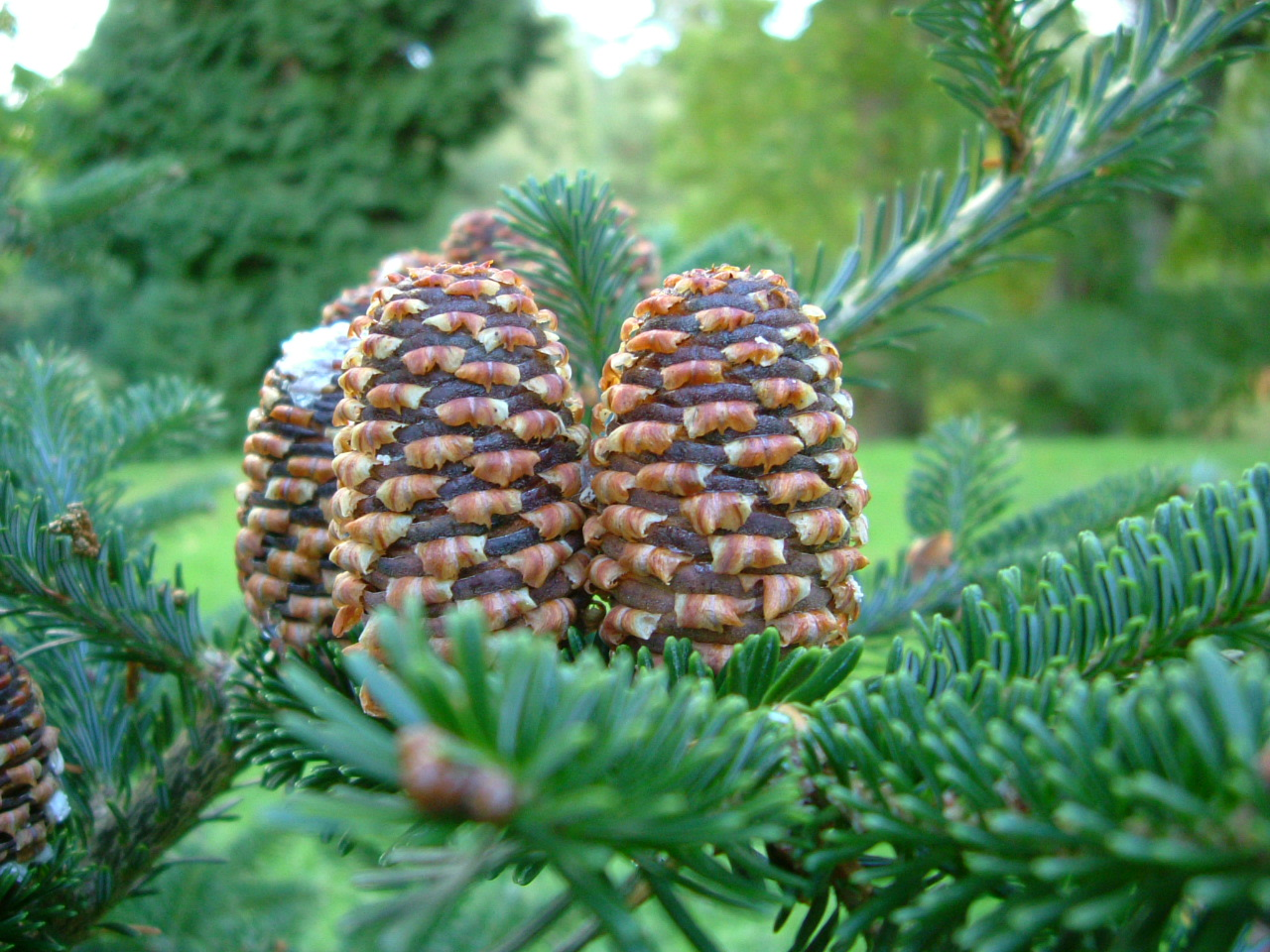 Taken Dawyck Botanic Gardens, Peebleshire, Scotland.